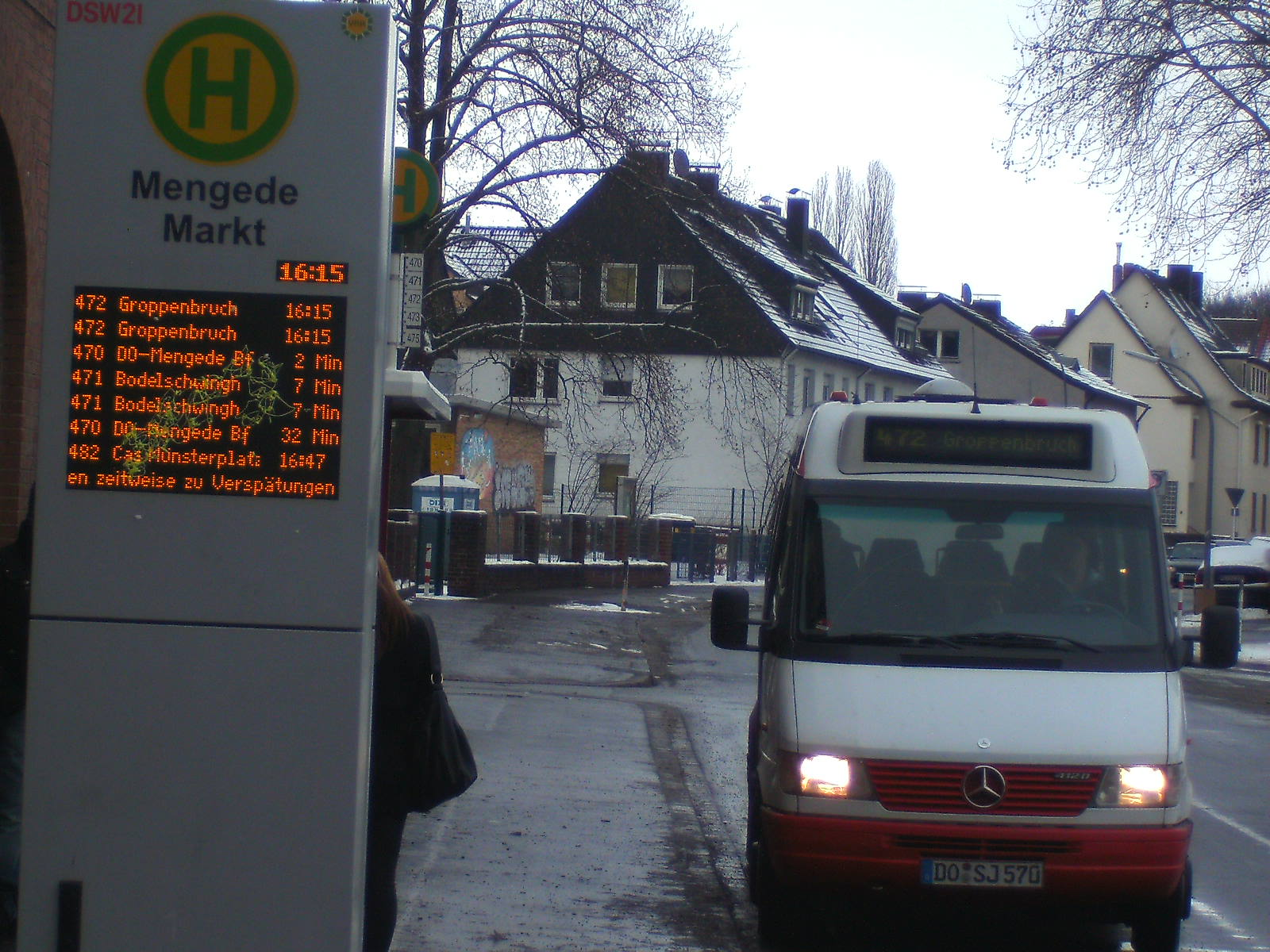 Bus line 472, service by a Mercedes Sprinter 412 D